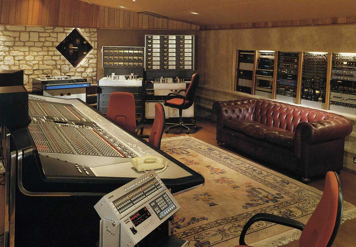 Marcus Recording Studios Control Room Studio ONE London W2